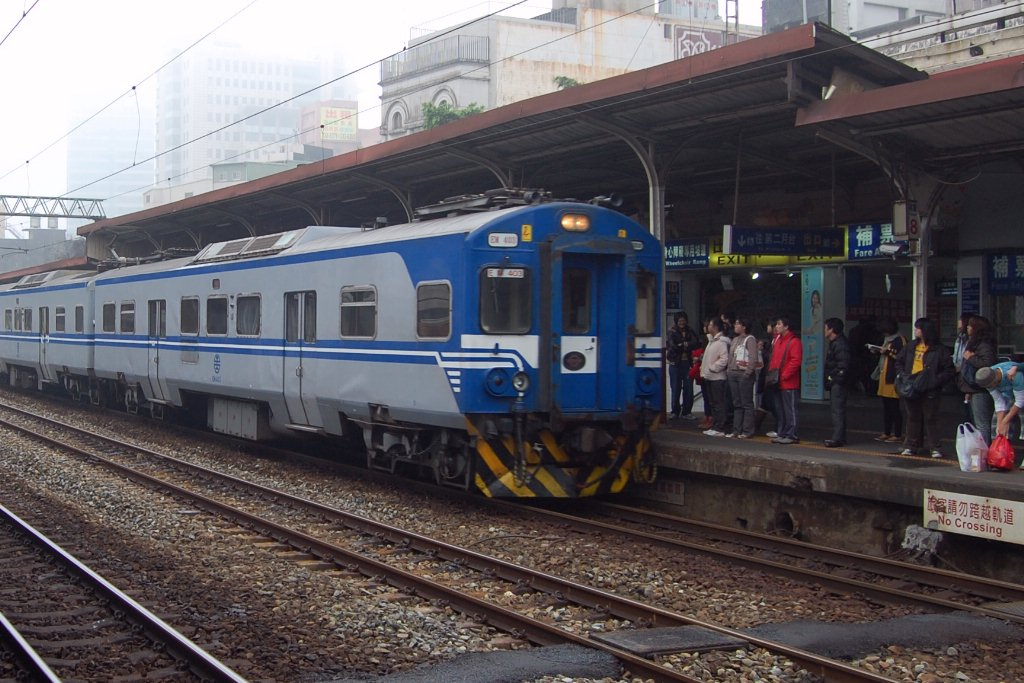 Taoyuan commuters wait for the South African Union Carriage & Wagon EM403 to Qidu. To support metropolitan growth, Banqiao yard moved west to Shulin, and Nankang yard east to Qidu, extending through-running operations